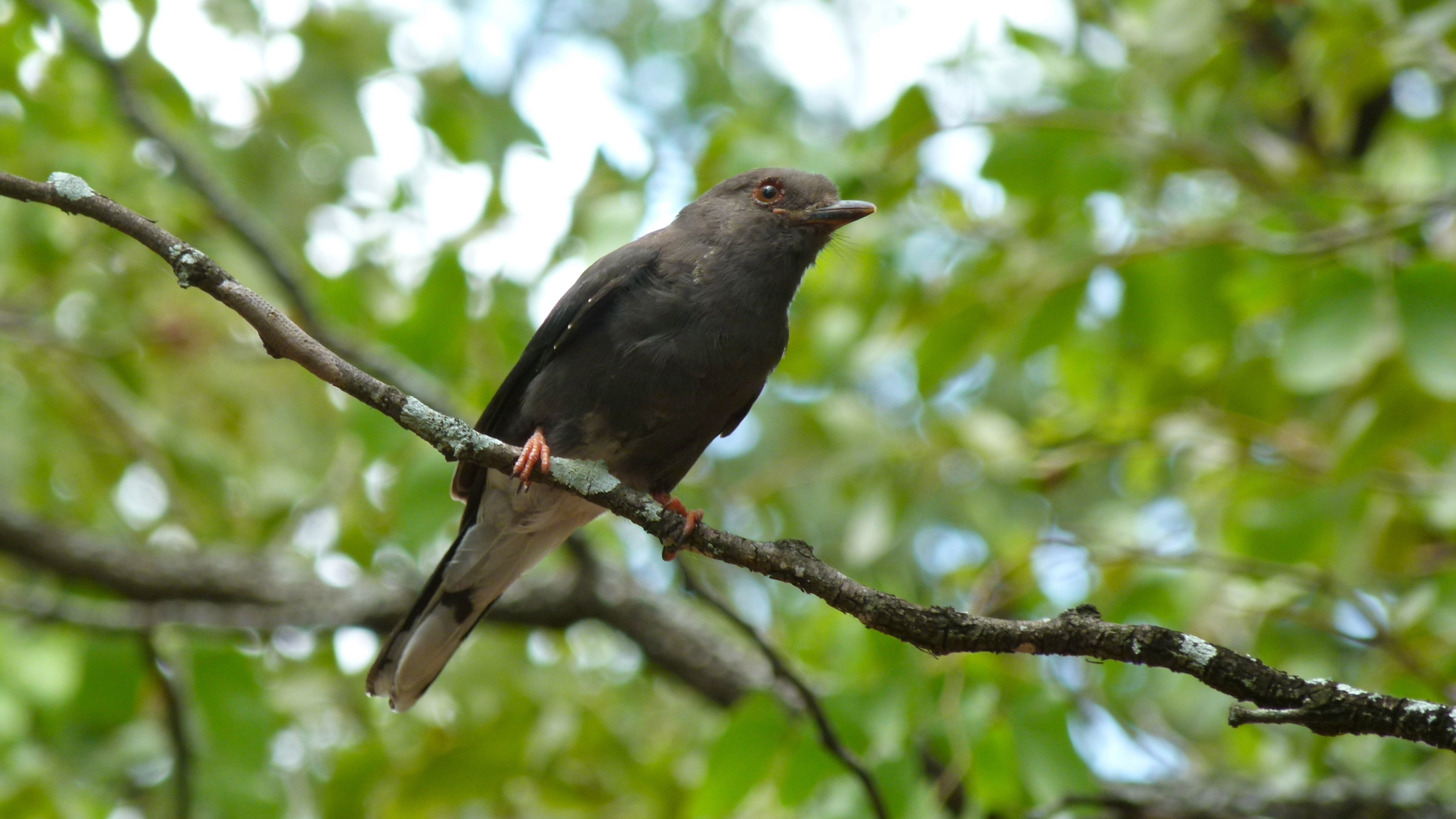 A juvenile Retz's helmet-shrike at Letaba Camp, Kruger NP, SOUTH AFRICA